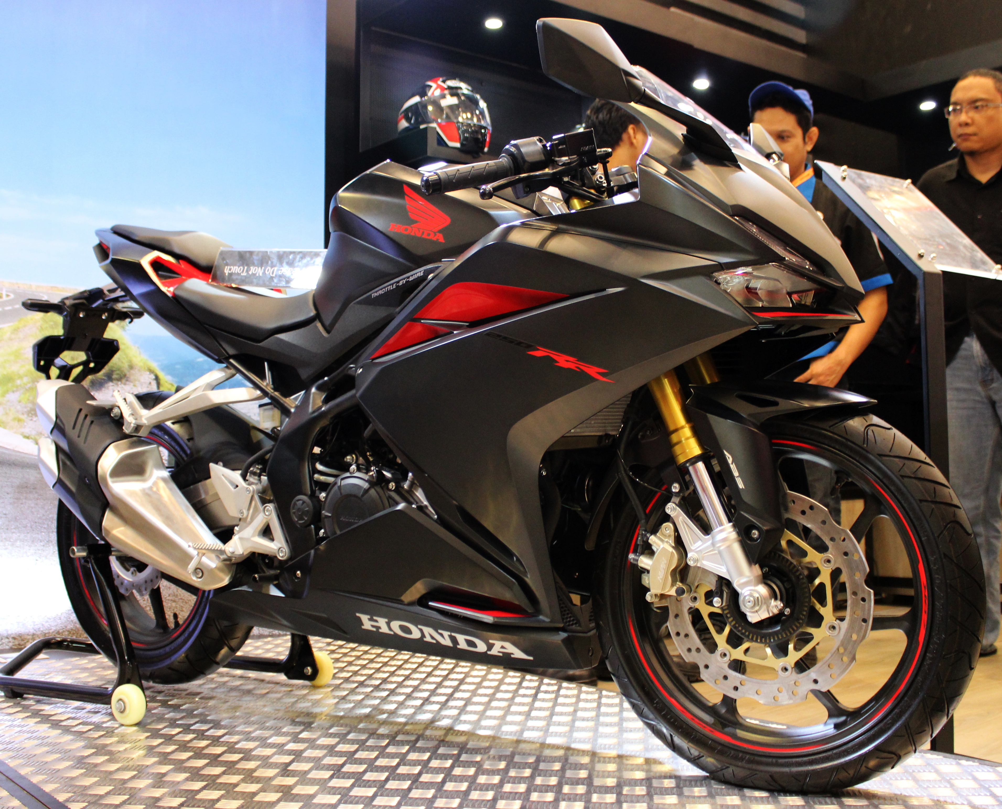 A Honda CBR250RR photographed in Gaikindo Indonesia International Auto Show 2016, South Tangerang, Indonesia on August 21, 2016.